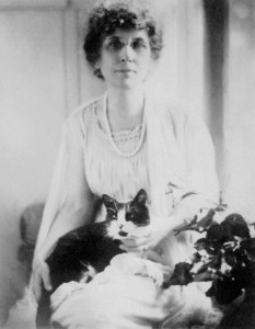 Photograph of Byrd Spilman Dewey with her cat Billie, c. 1918